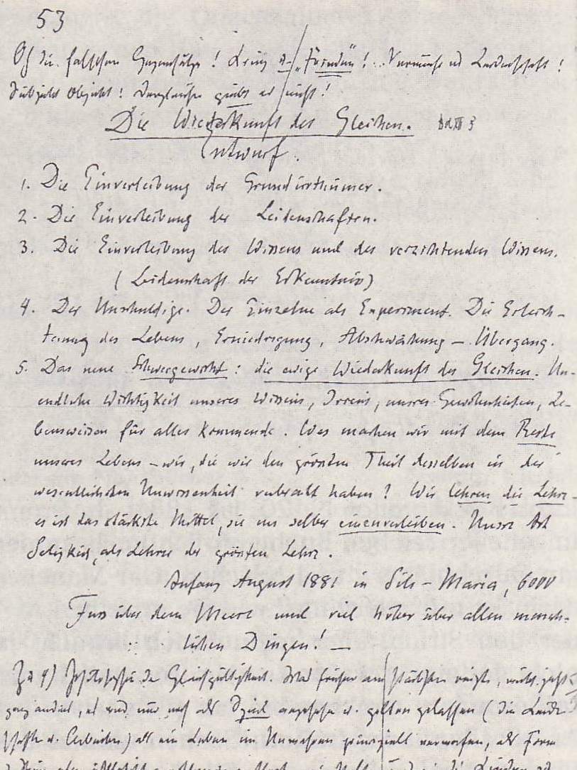 note by Nietzsche about the "Ewige Wiederkunft"